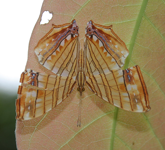 Common Maplet Chersonesia risa at Samsing in Darjeeling district of West Bengal, India.